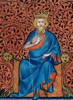 Dagobert I